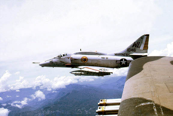 A Douglas A-4E Skyhawk (BuNo. 151046) of Marine attack squadron VMA-311 Tomcats flies next to an USAF Douglas A-1 Skyraider of the 602nd Special Operations Squadron over South Vietnam in 1970.